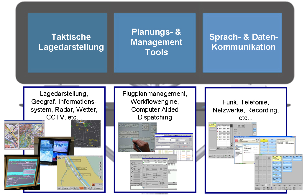 Schema on Control Centre Solutions